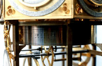 The Wheel of the Year of Astrarium by Carlo G Croce